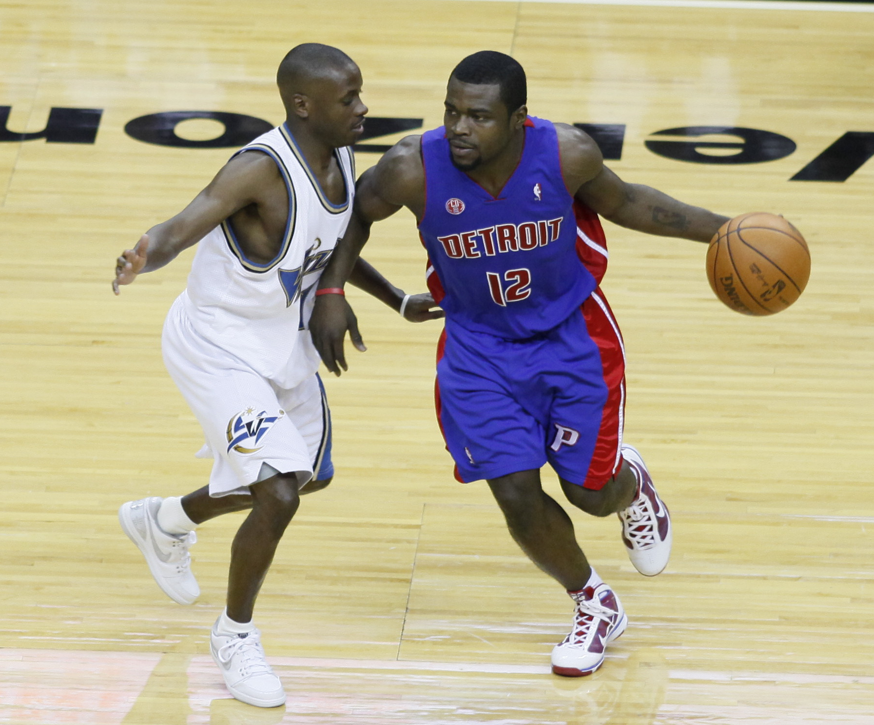 Will Bynum playing with the Detroit Pistons